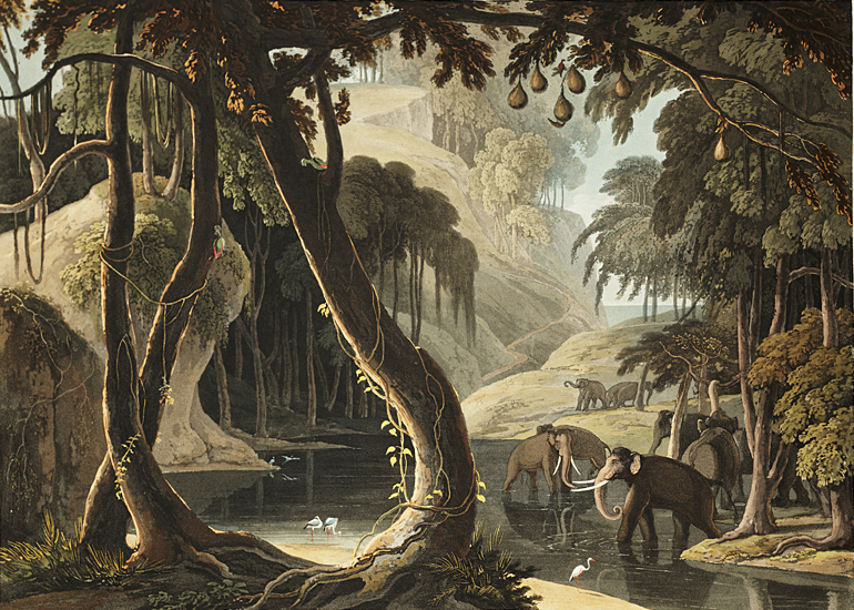 "A Scene in Sitsikamma" - Samuel Daniell was appointed artist for a British expedition into the Cape interior in 1801. He sketched animals from life in their natural habitats, and was praised for his accuracy and attention to detail. Even so, the elephants depicted here are Asian and not African. Upon his return, Daniell used his field sketches to create and publish these aquatints